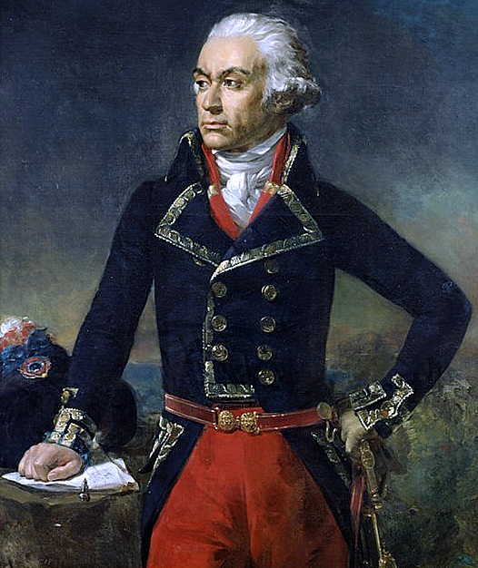 Charles-François Dumouriez